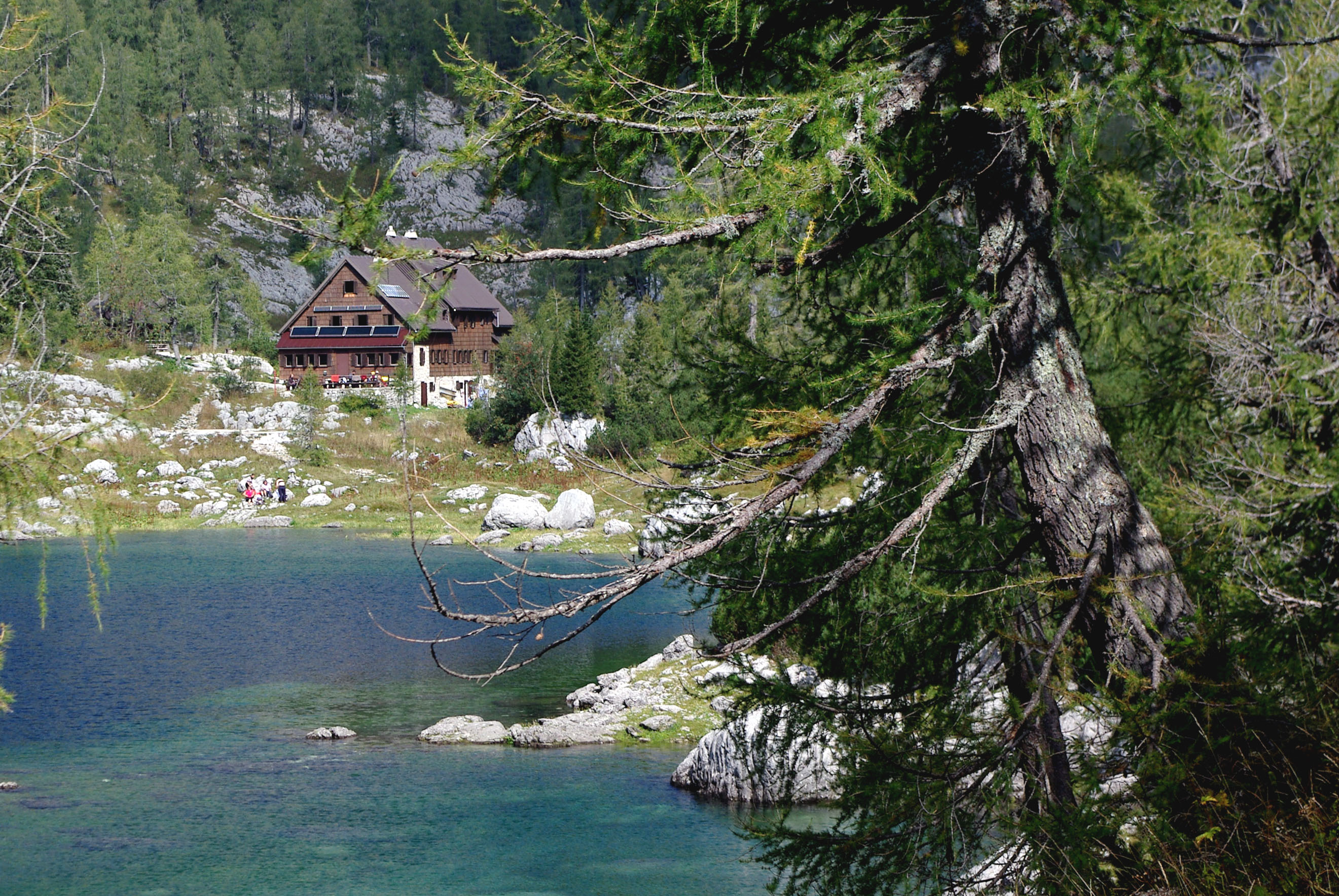 Mountain hut at Dvojno jezero (Double Lake), Triglav Lakes Valley, Slovenia.